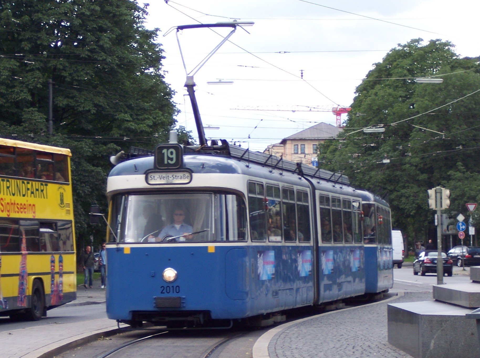 Tramcar series P3.16 of the Munich tram, Munich, Germany. As of 2007 this is the oldest series of tramcars still in use in Munich, Germany. Tramcars of this series are in service since 1966-68.